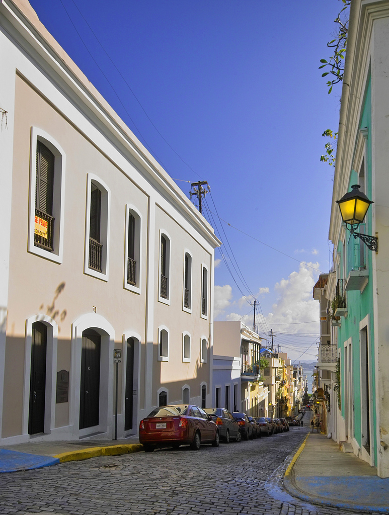 Streets in Old San Juan, Puerto Rico, looking along Calle San Justo from the intersection with Calle San Sebastián.